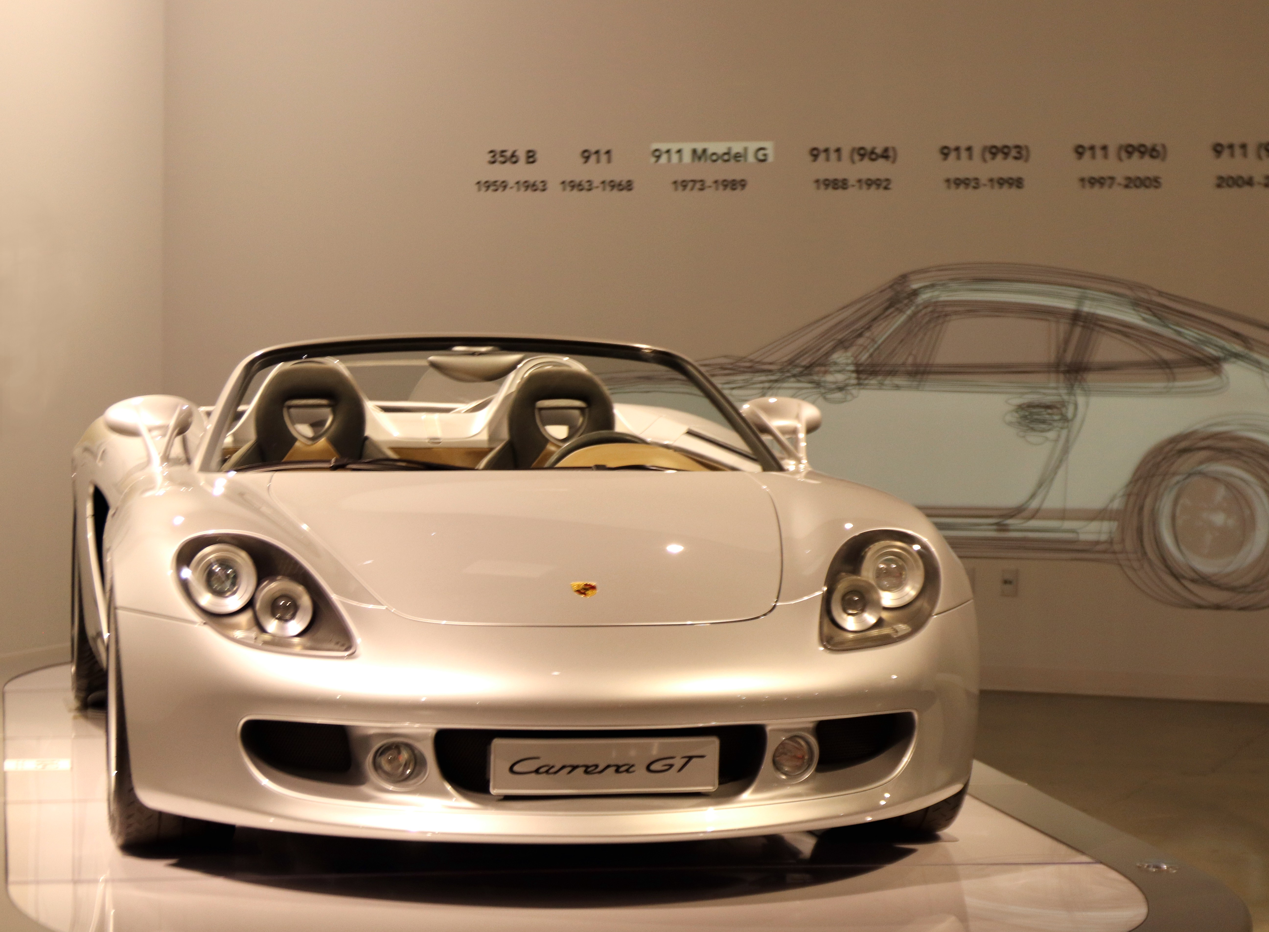 Petersen Automotive Museum 6060 Wilshire Blvd, Los Angeles, CA 90036